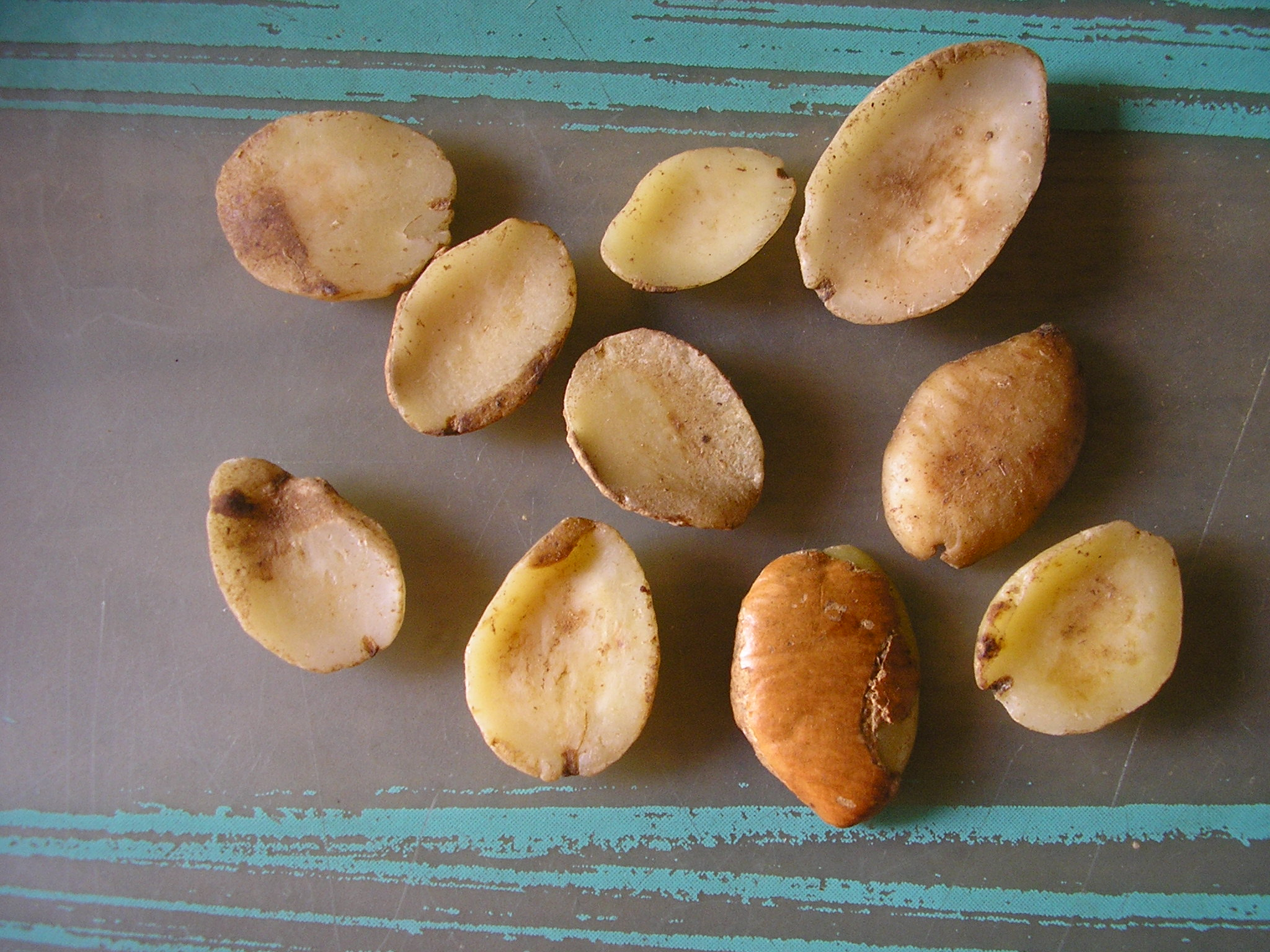 Created by Zz411, at home, taken by me.